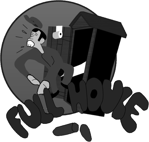 Silverplate B-29 nose art of Full House I drew, not sure the color version was accurate so I've used gray scale to simulate appearance in BW photo. Anynobody 07:23, 27 March 2007 (UTC) Color version: File:Fullhouse color.png. Magog the Ogre (talk) 20:28, 24 May 2012 (UTC)